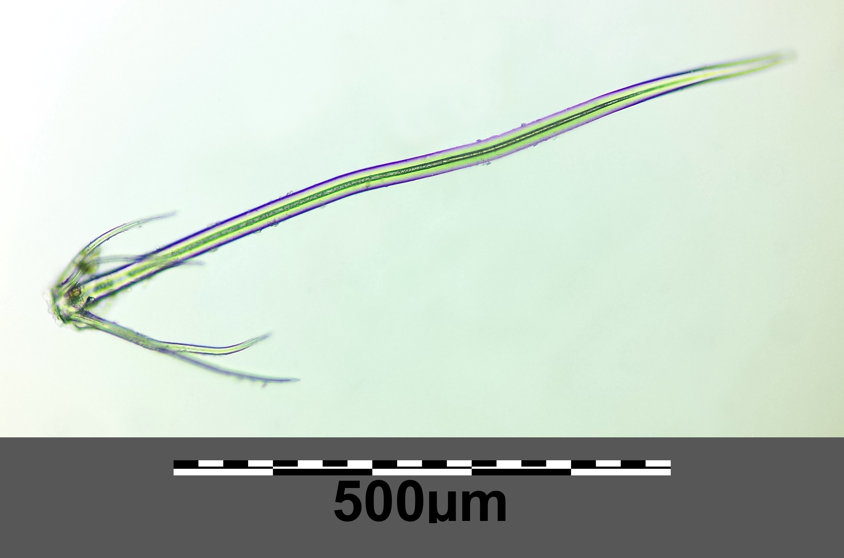 Stellate hairs of leaf Taxonym: Potentilla pusilla ss. Fischer et al. EfÖLS 2008 ISBN 978-3-85474-187-9 Location: Steinberg near Niederhollabrunn, district Korneuburg, Lower Austria - ca. 375 m a.s.l. Habitat: semi-dry grassland